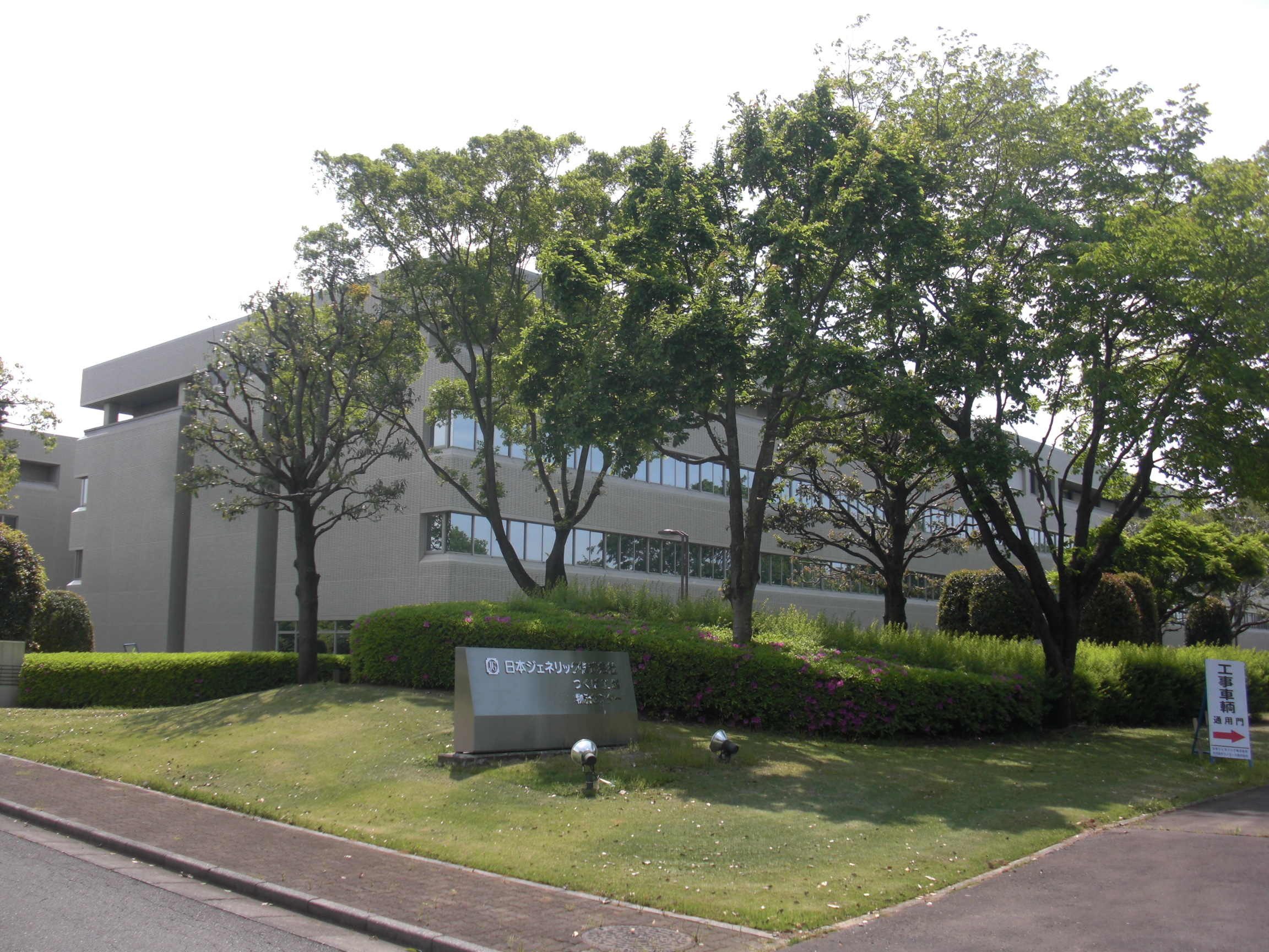 This is the NIHON GENERIC CO., LTD. Tsukuba Factory in Tsukuba, Ibaraki, Japan.